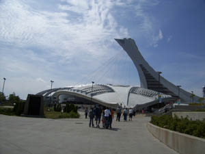 Biodôme and Stade Olympique in Montreal